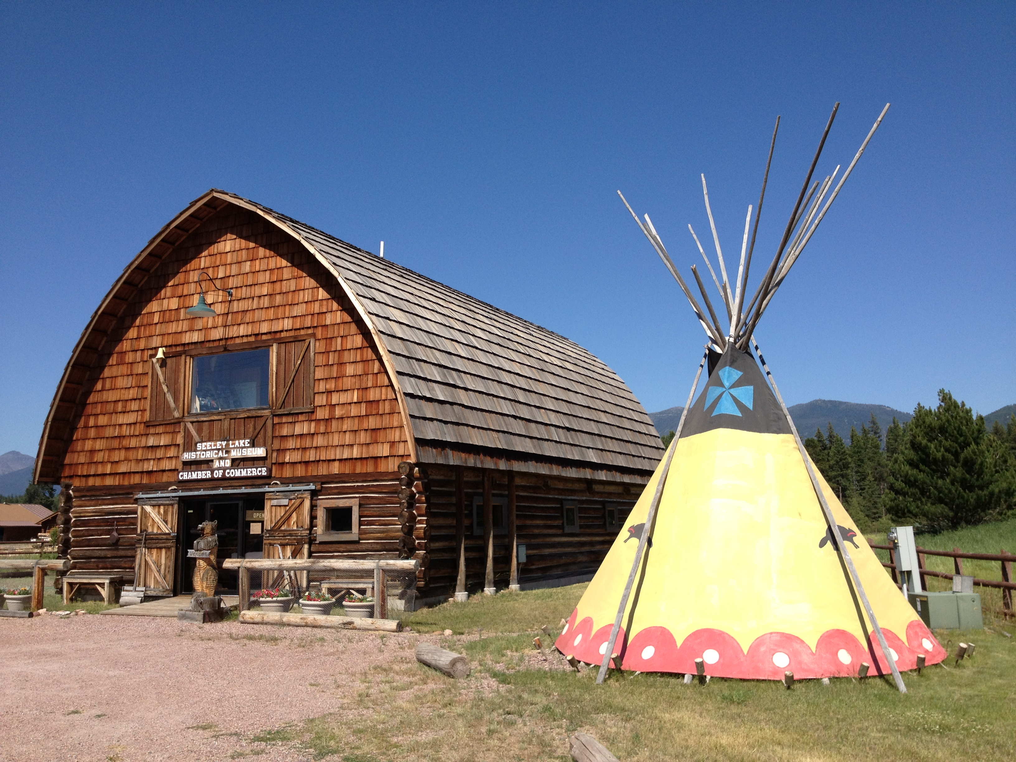 Seeley Lake, Montana, July 16, 2013